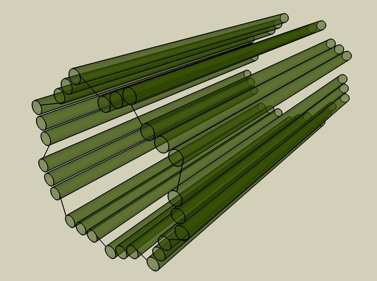 3 dimensional view of a centriole